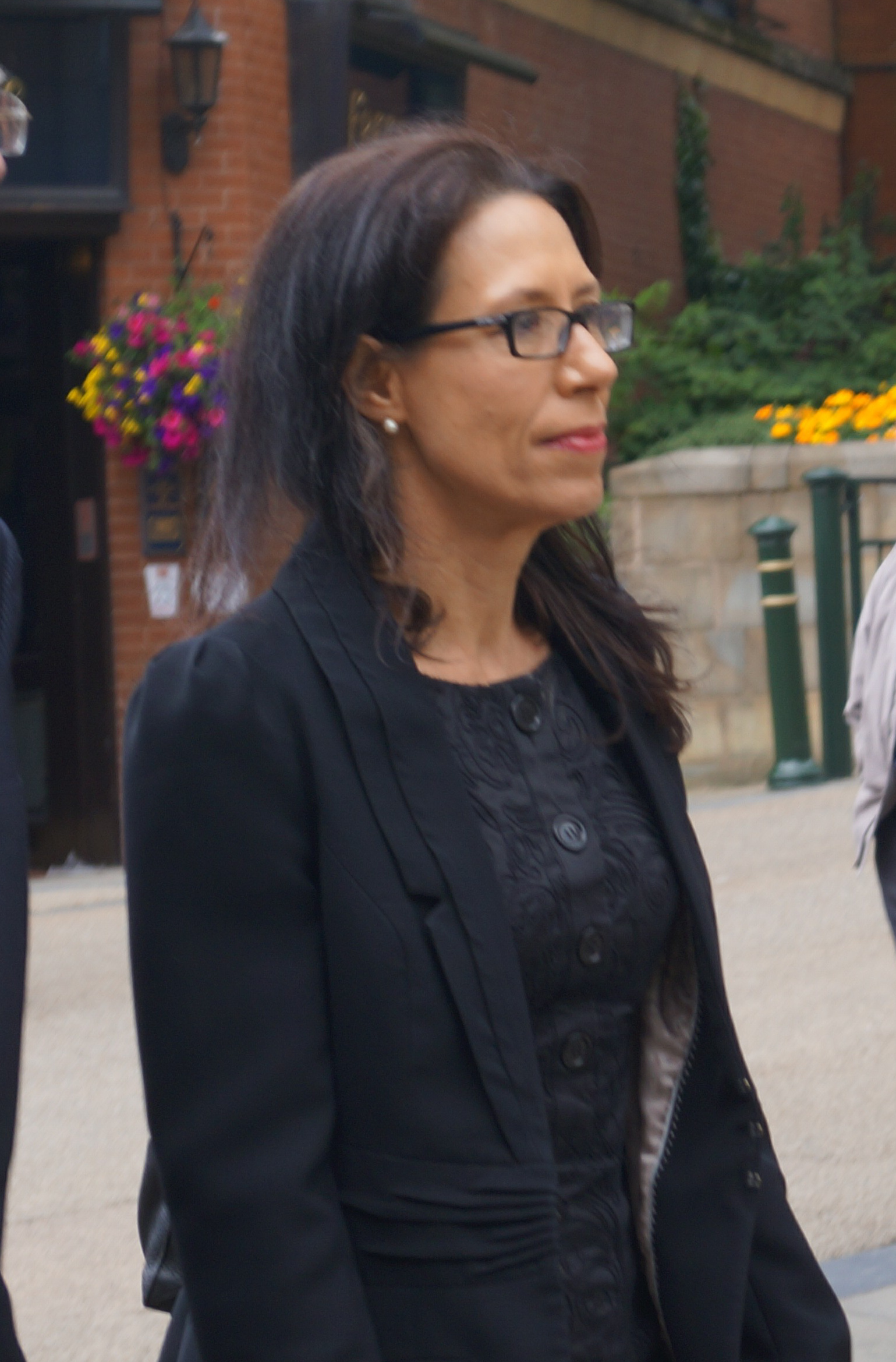 Labour MP for for Oldham East and Saddleworth, Debbie Abrahams